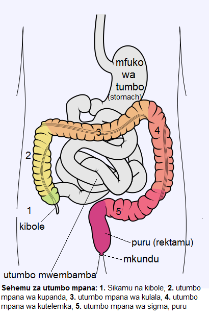 Swahili version of Tractus intestinalis intestinum crassum.svg, showing large intestine